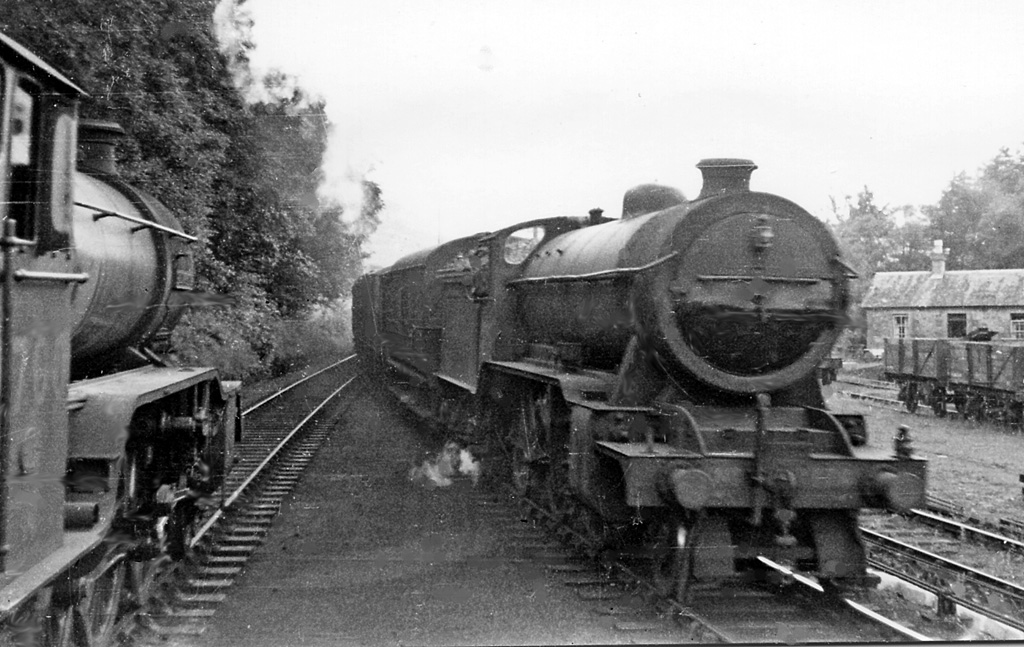 Trains crossing at Ardlui on the West Highland Line. View northward, towards Crianlarich and Fort William, ex-North British Railway. Taken on the same occasion as NN3115 : A Down freight on the West Highland Line at Ardlui, V4 2-6-2 No. 1700 'Bantom Cock' is on the left, working the 15.46 Glasgow (Queen St.) to Fort William and Mallaig: the Up Class F freight is headed by K2 2-6-0 No. 1776. The main line being single track, trains can pass only at intermediate stations such as Ardlui.